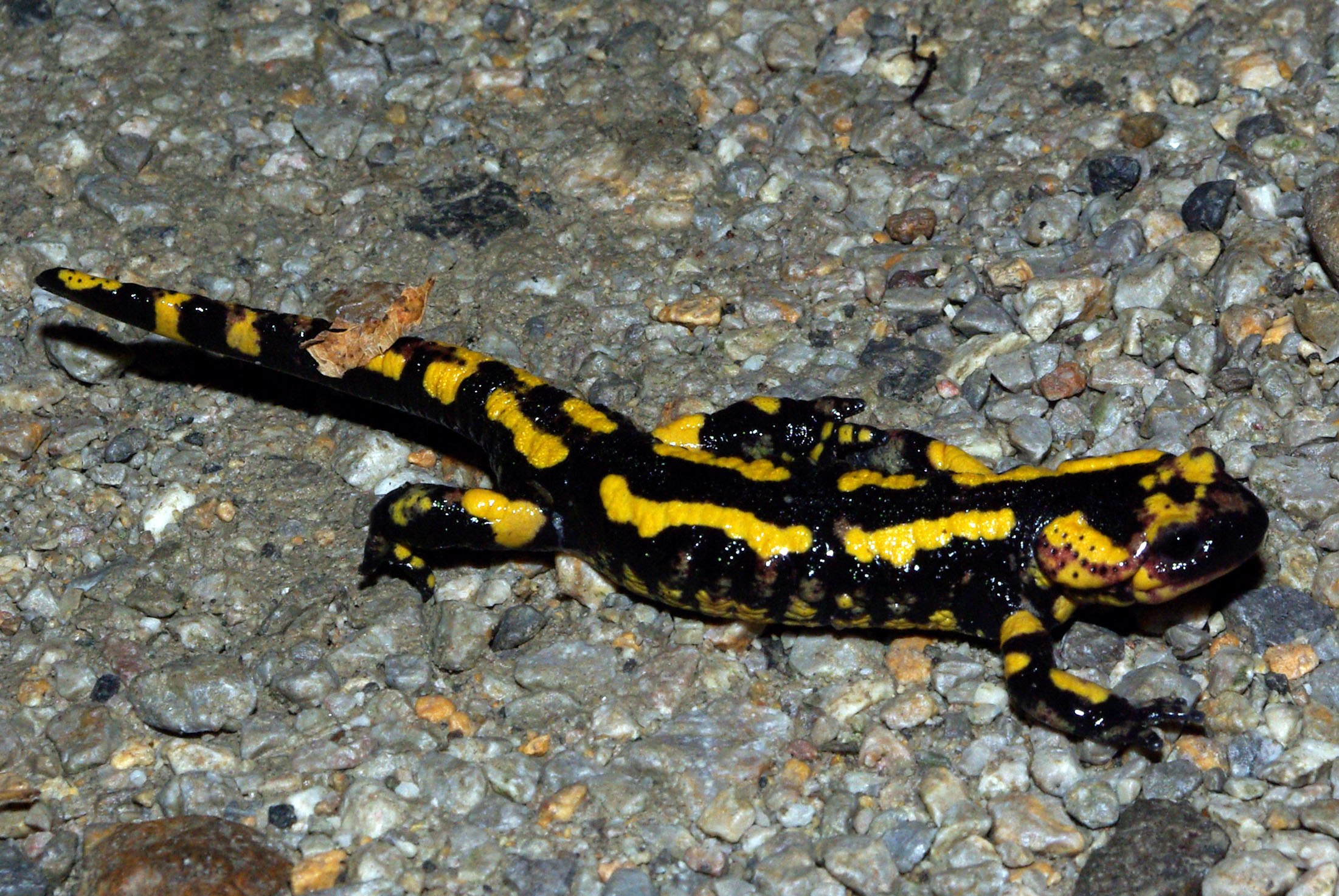 Fire Salamander (Salamandra salamandra bernardezi). Cuevas de Viñayo, León (Spain)